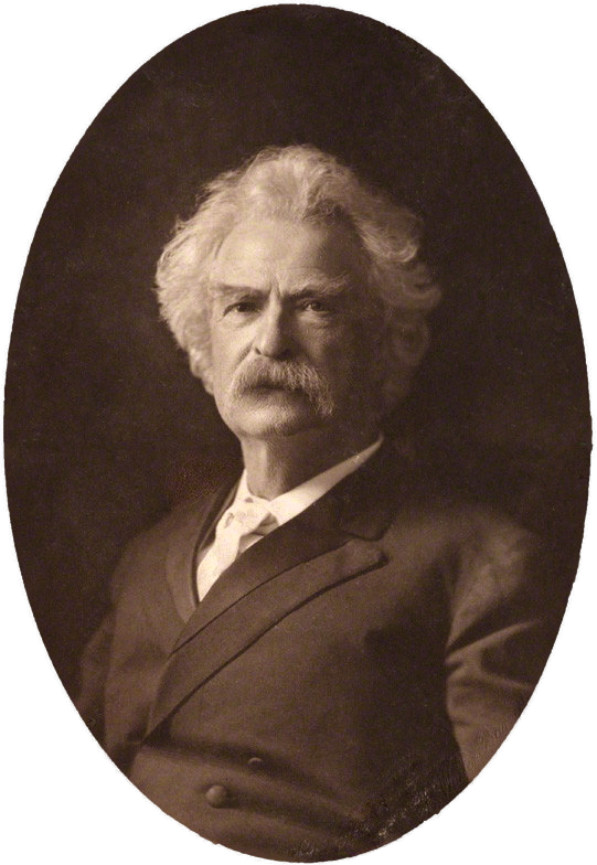 Platinum print portrait photograph of Mark Twain